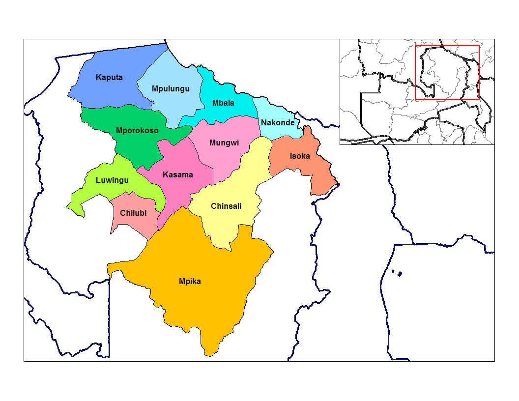 Map of the districts of Northern province in Zambia. Created by Rarelibra 15:36, 28 December 2006 (UTC) for public domain use, using MapInfo Professional v8.5 and various mapping resources.